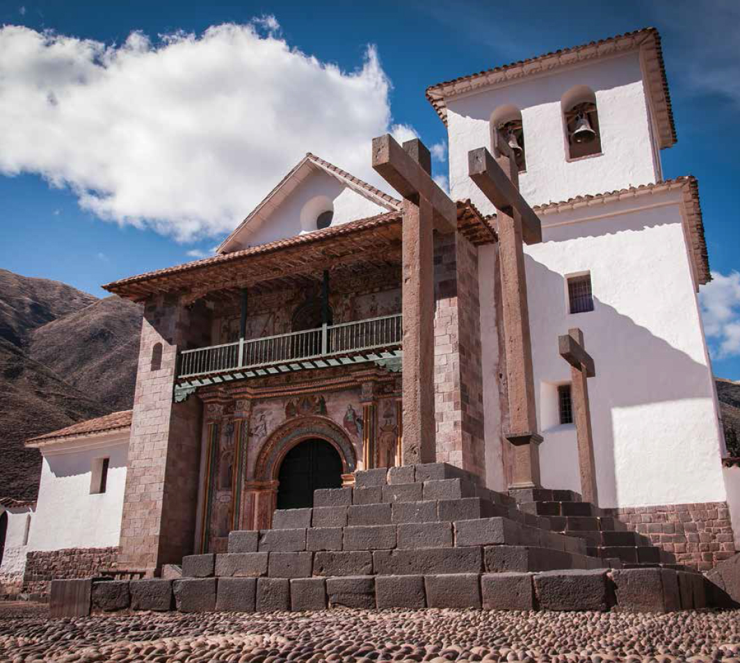 andahuaylillas church